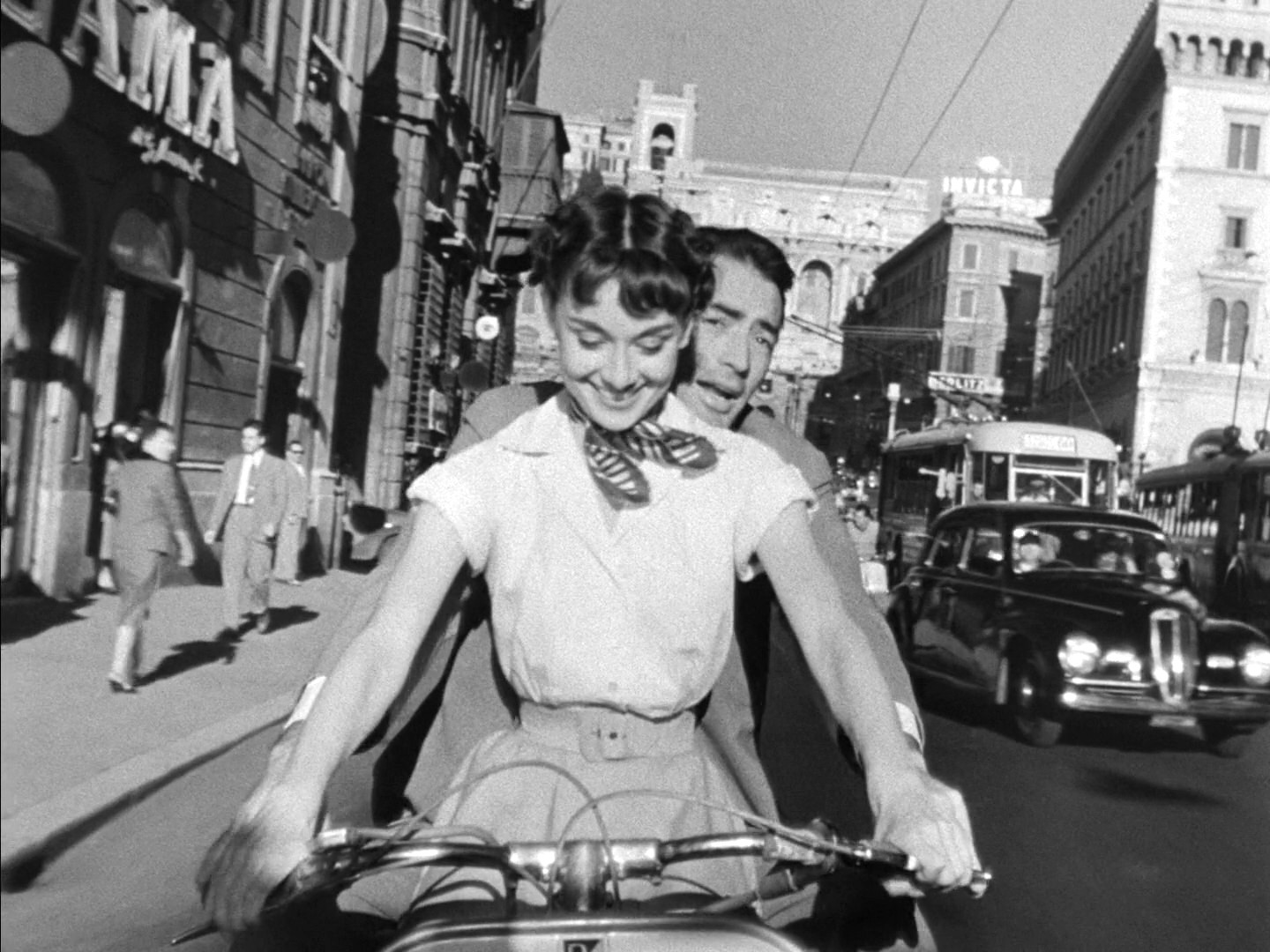 Cropped screenshot of Audrey Hepburn and Gregory Peck from the trailer for the film Roman Holiday.